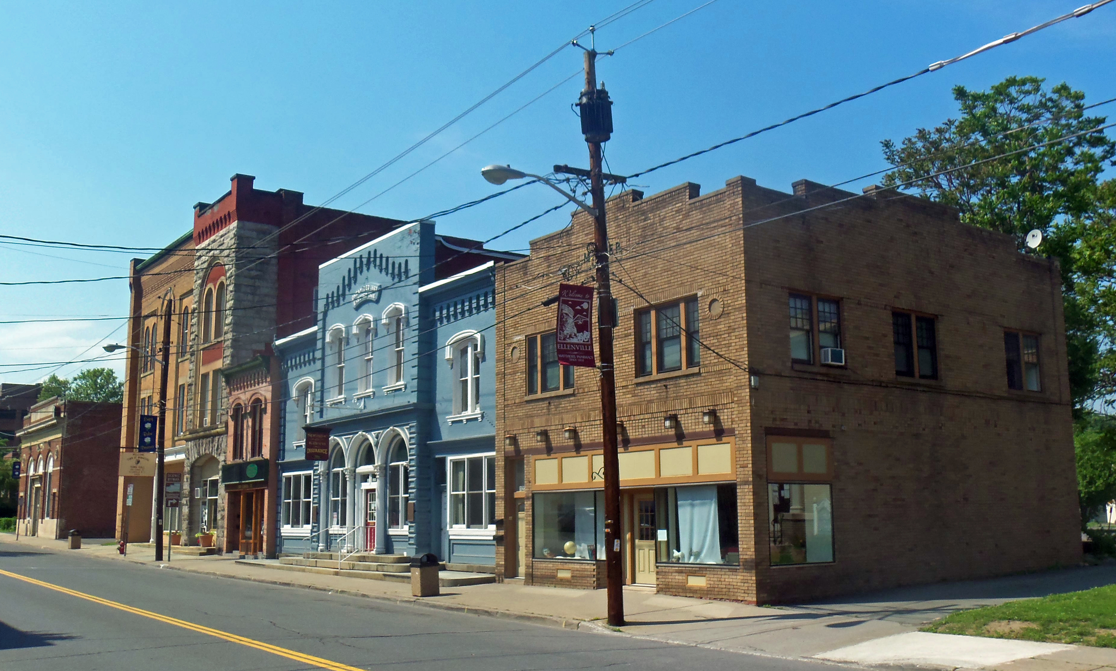 Buildings on Canal Street (NY 52) in Ellenville, NY, USA, contributing properties to the Ellenville Downtown Historic District